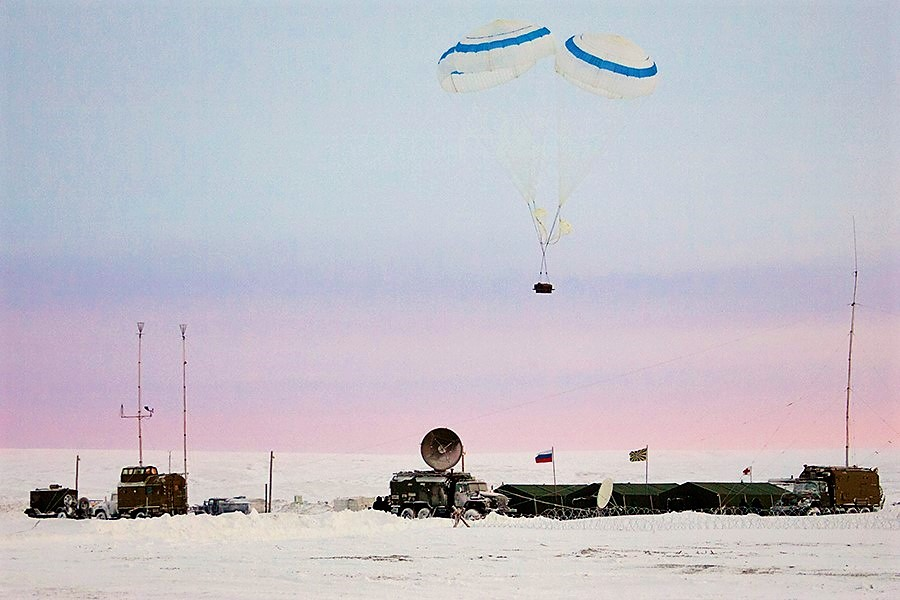 aerodrom Temp